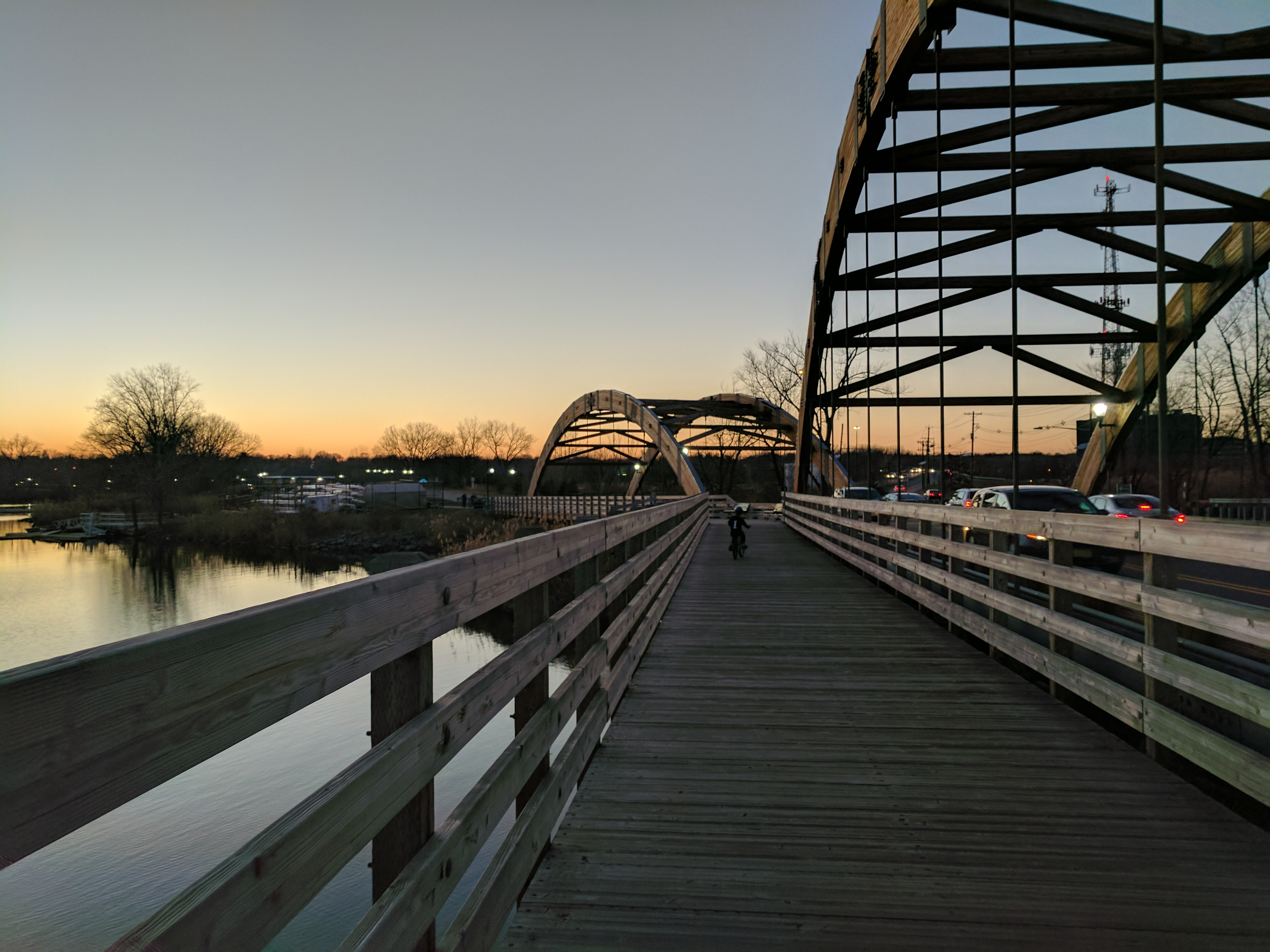 Sunset from the wooden bridge at Overpeck County Park